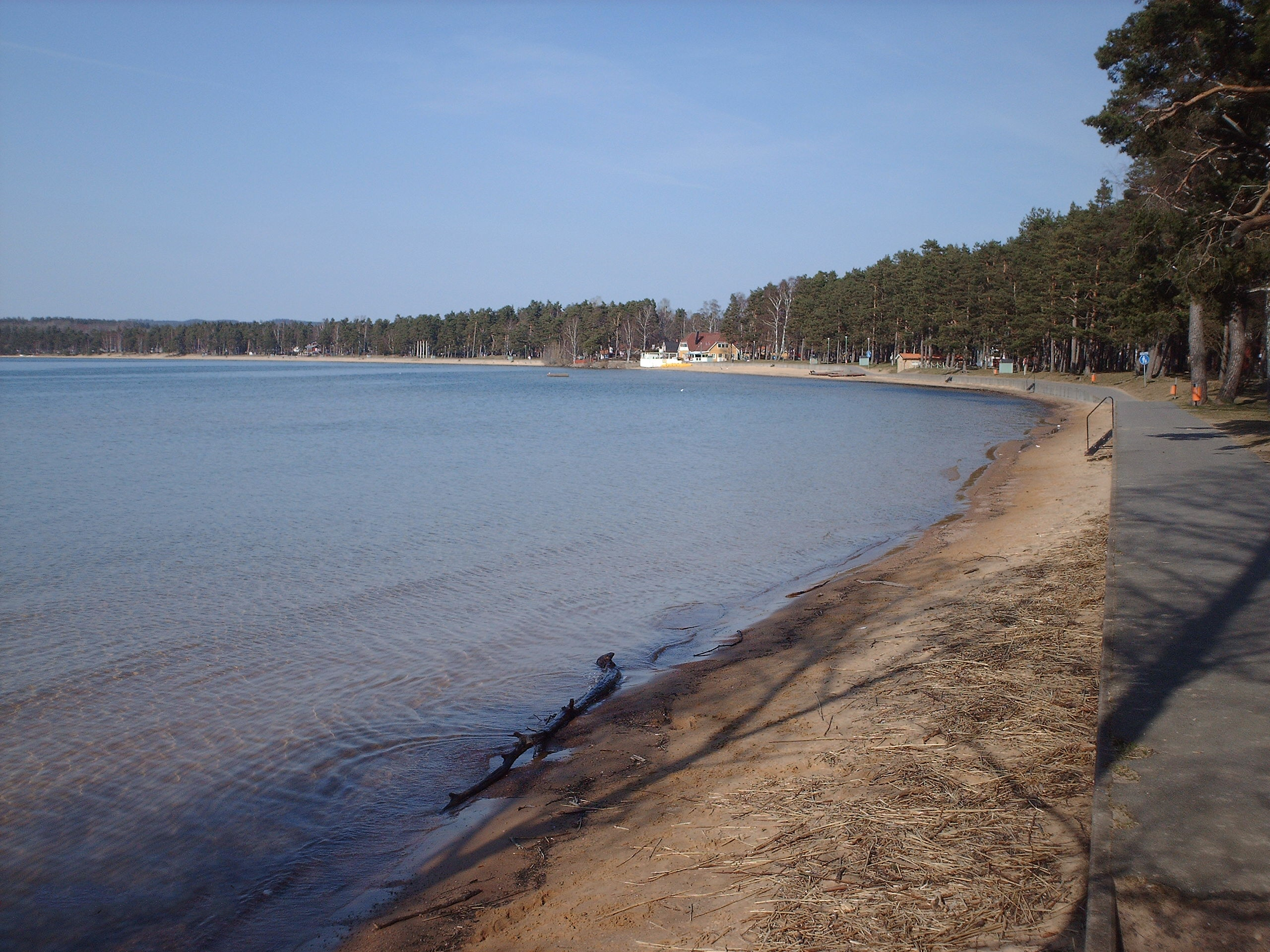 Varamon beach, Motala, Sweden.